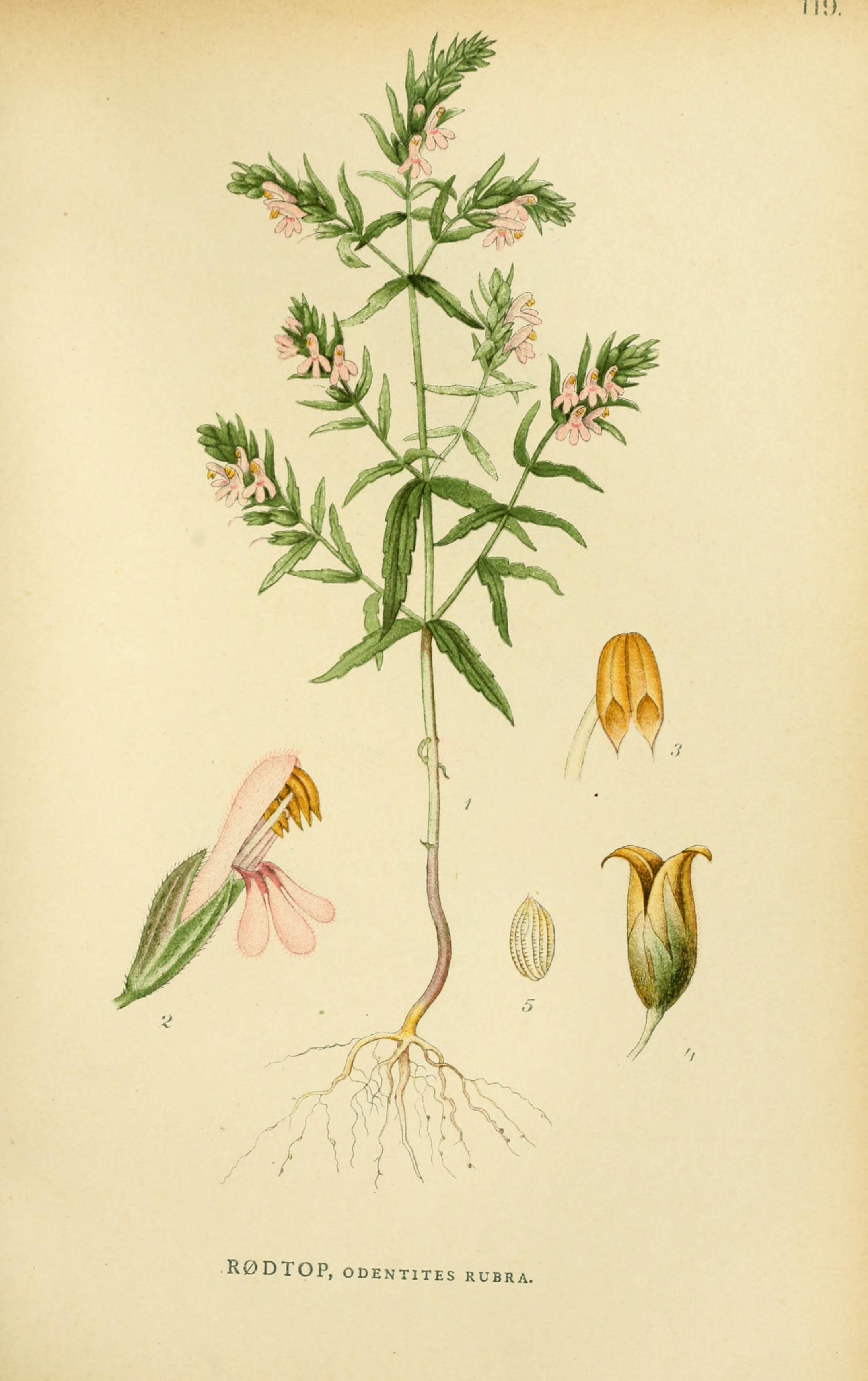 Title: Billeder af Nordens flora Year: 1901 (1900s) Authors: Lindman, C. A. M. (Carl Axel Magnus), 1856-1928 Subjects: Plants Publisher: København, G. E. C. Gad Text Appearing Before Image: III). Text Appearing After Image: RØDTOP, ODENTITES RUBRA.